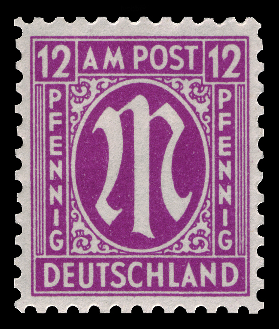 Definitive stamp series "M" Graphics by Roach Ausgabepreis: 12 Pfennig First Day of Issue / Erstausgabetag: 25. August 1945 Michel-Katalog-Nr: 23 (Alliierte Besetzung - Bizone)